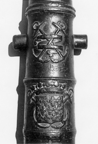 A culverin in Saint-Germain-Beaupré (département Creuse, France).